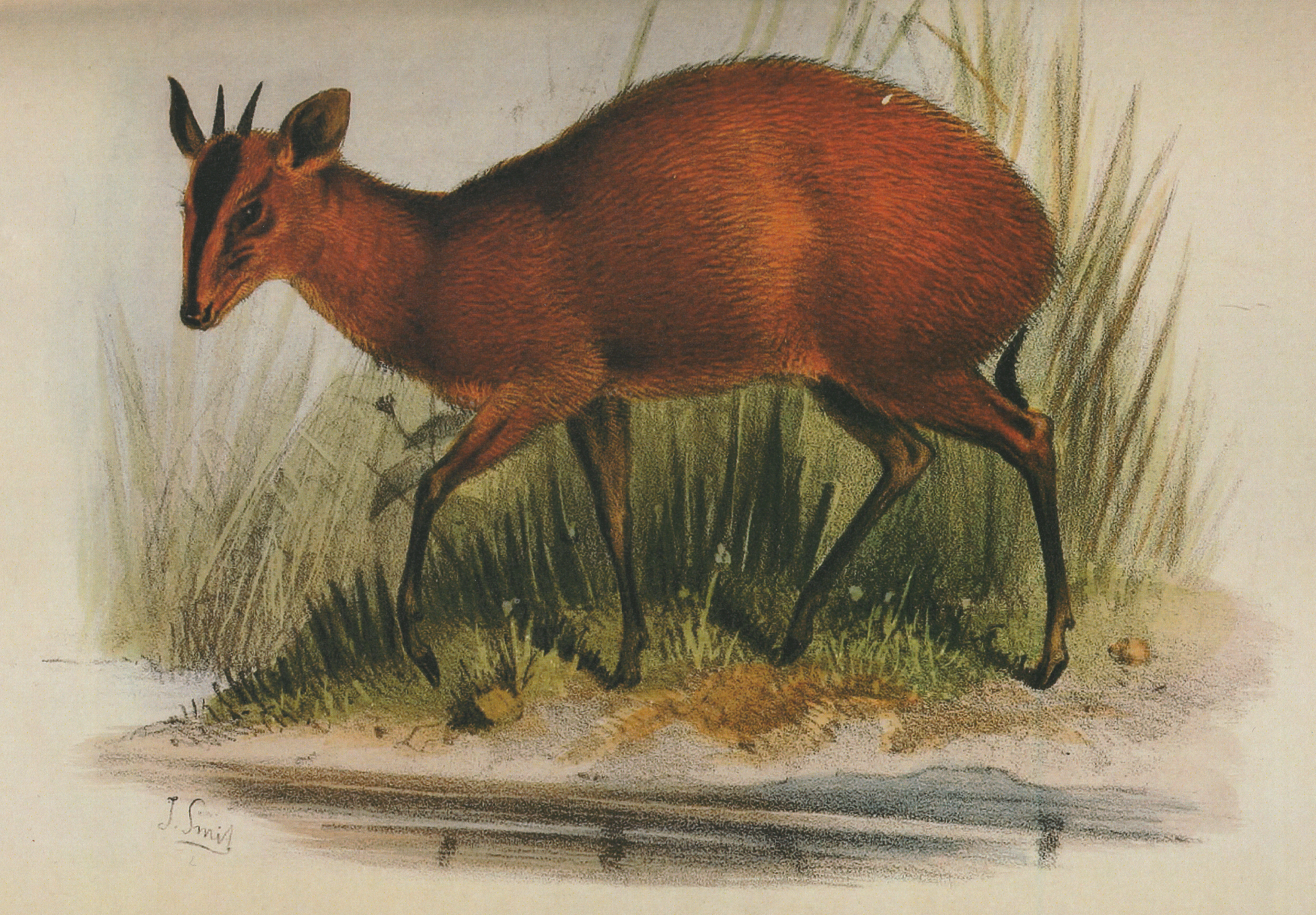 Drawing of Cephalophus nigrifrons from the species description by John Edward Gray: Notes on the bush-bucks (Cephalophidae) in the British Museum, with the description of two new species from Gaboon. Proceedings of the Zoological Society 1871, pp. 588–601 (pl. 46) Zeichnung von Cephalophus nigrifrons aus der Erstbeschreibung von John Edward Gray: Notes on the bush-bucks (Cephalophidae) in the British Museum, with the description of two new species from Gaboon. Proceedings of the Zoological Society 1871, S. 588–601 (Tafel 46)